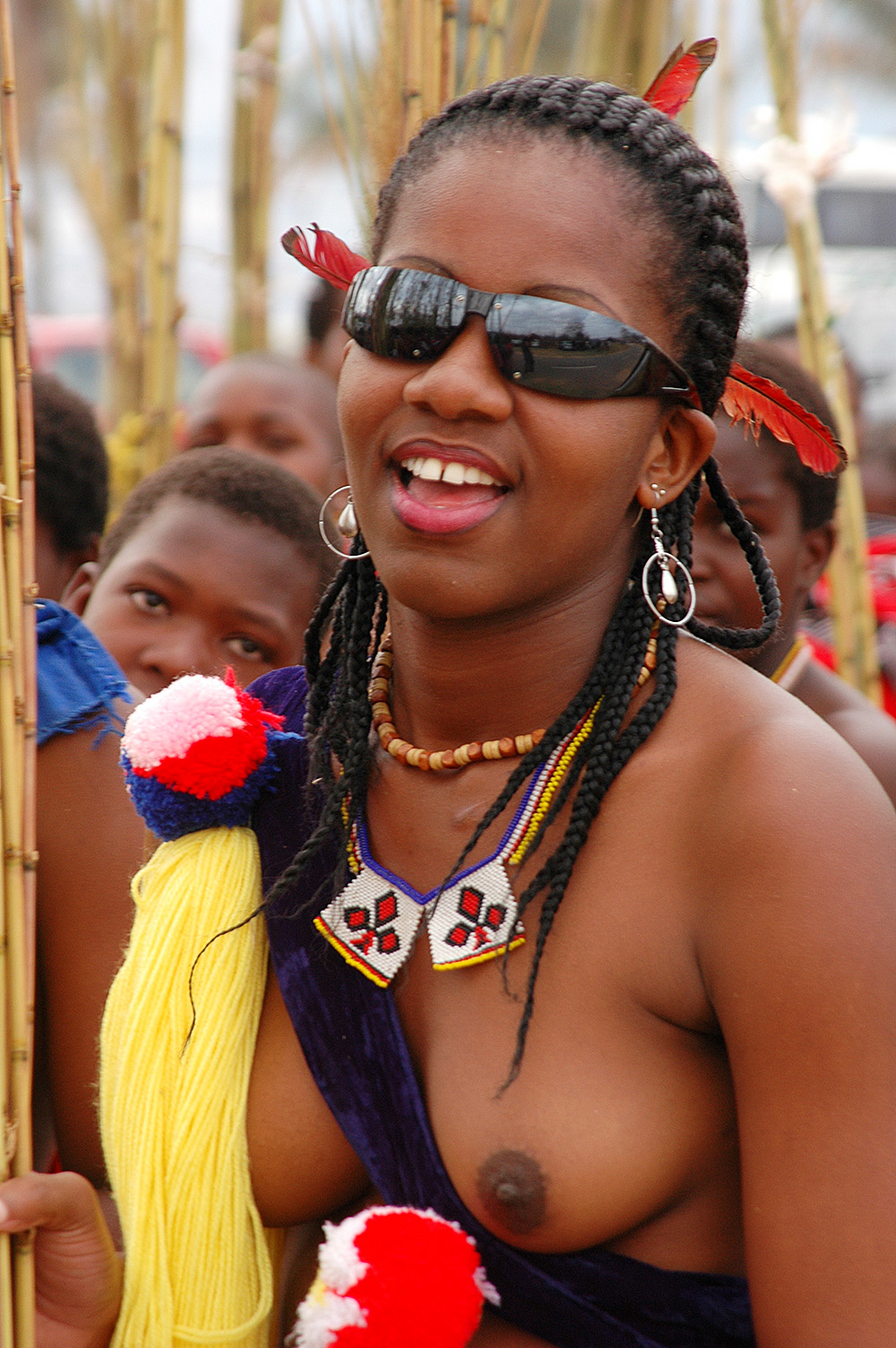 The Reed Dance Festival 2006